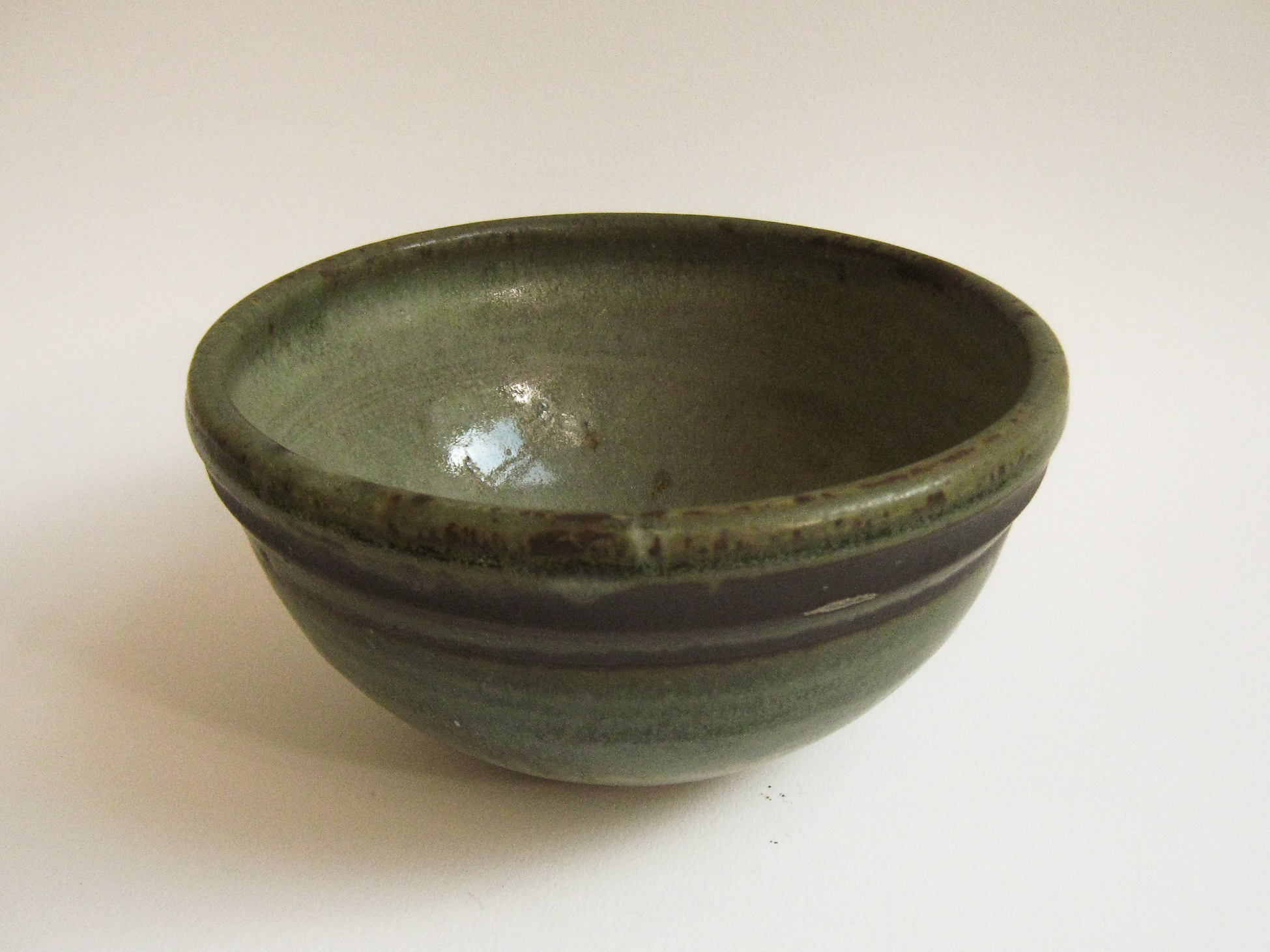 Thrown stoneware bowl by Ian Sprague 1960s; photographed in St Kilda Victoria